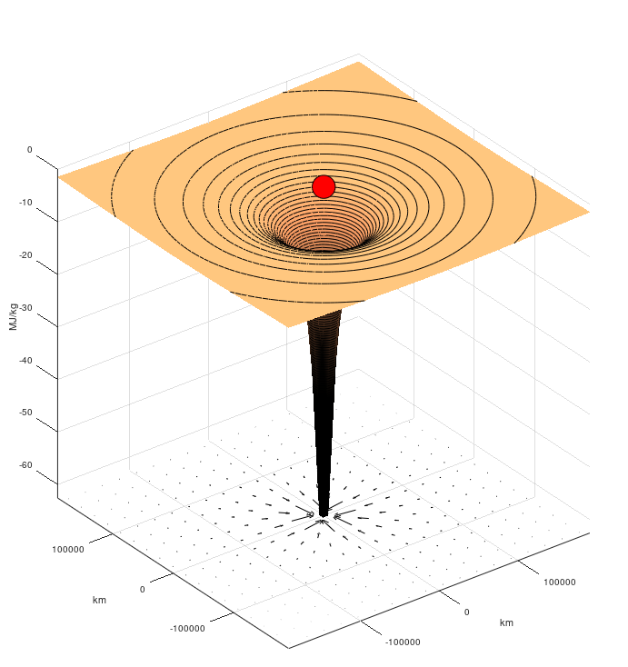 Gravitational potential around Earth. Maximum is -62.5 MJ/kg on Earth radius.